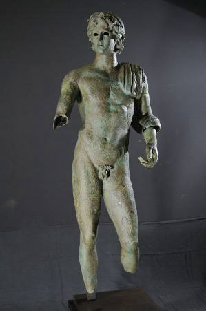 Statue of the ephebe of Agde